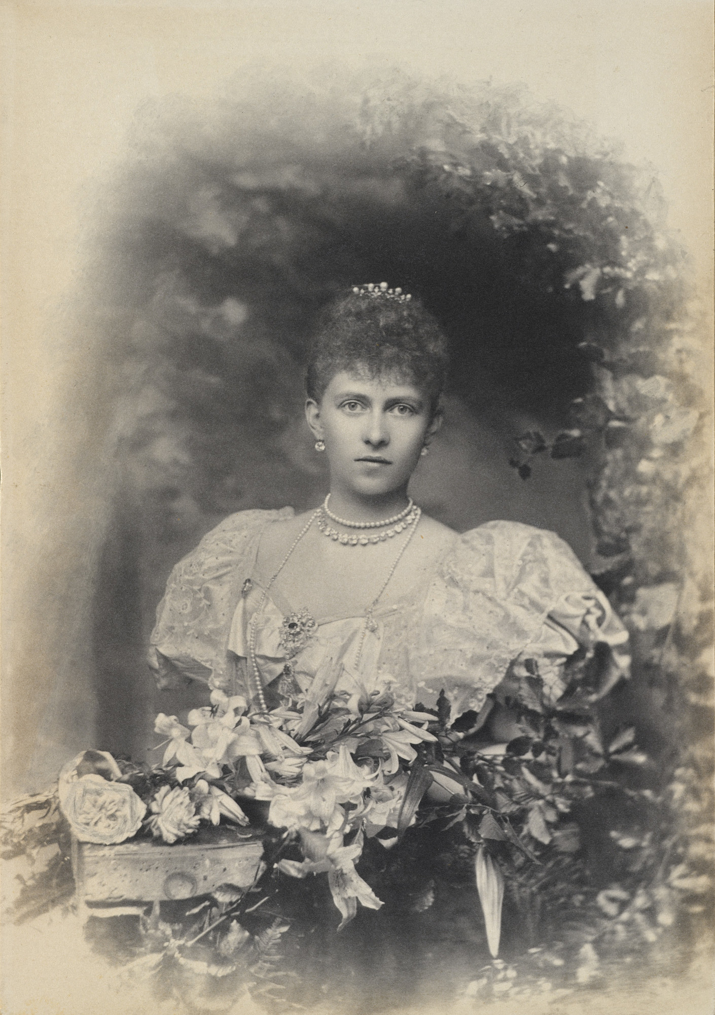 Sophia of Prussia - Queen consort of Greece